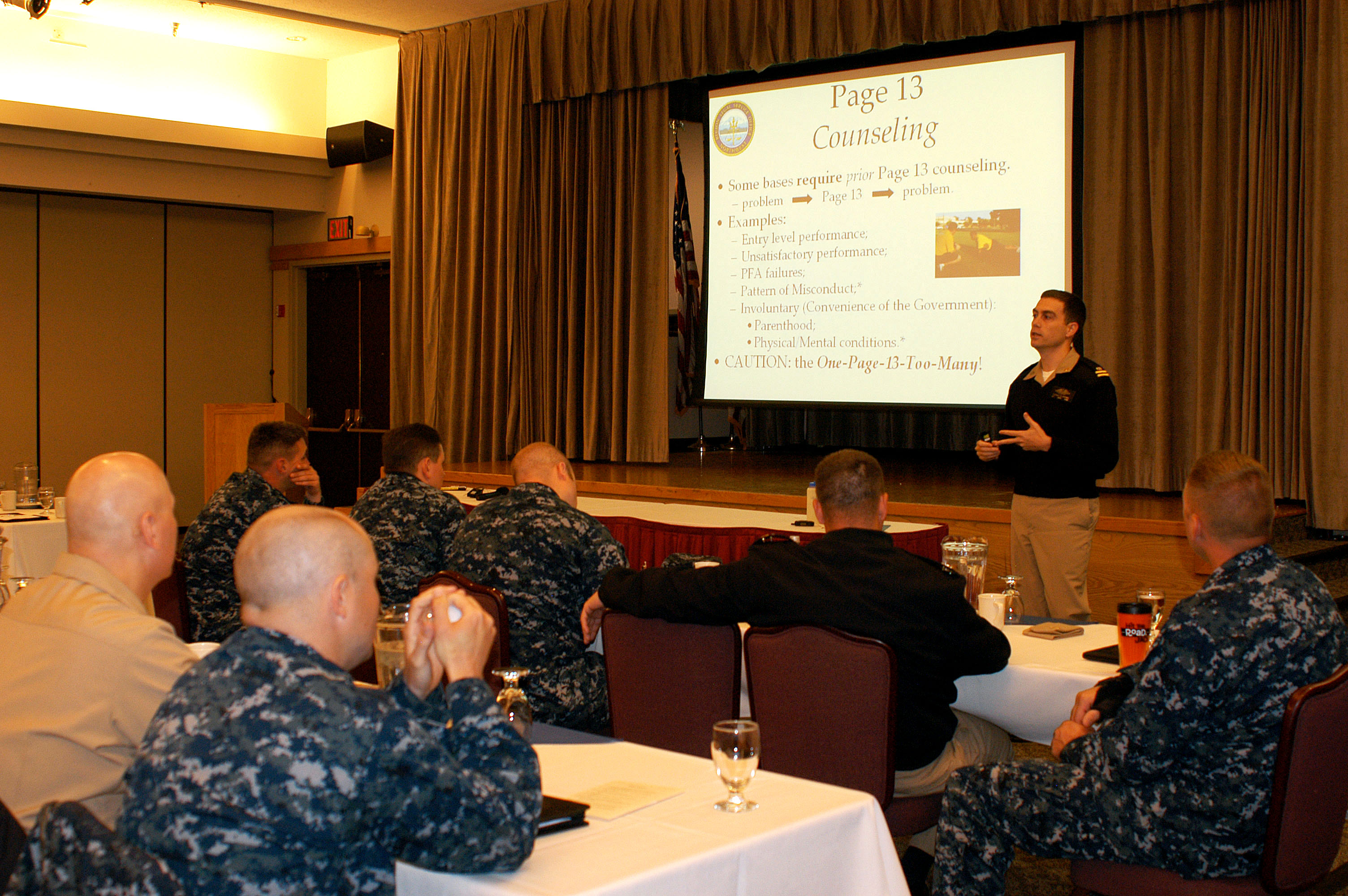 SILVERDALE, Wash. (May 20, 2010) Lt. Thomas Brown, a legal representative from Region Legal Services Office Northwest, facilitates personal and fleet readiness training at the Bangor Plaza Ballroom at Naval Base Kitsap Bangor during the annual Personal Readiness Summit. The one-day summit provides informative, in-depth training on alcohol and drug abuse prevention, training and discussions pertaining to personal and fleet readiness, and a "Myths vs. Truths" session designed to help educate Sailors on the realities of drug and alcohol abuse. (U.S. Navy photo taken by Mass Communication Specialist 3rd Class Lawrence Davis/Released)